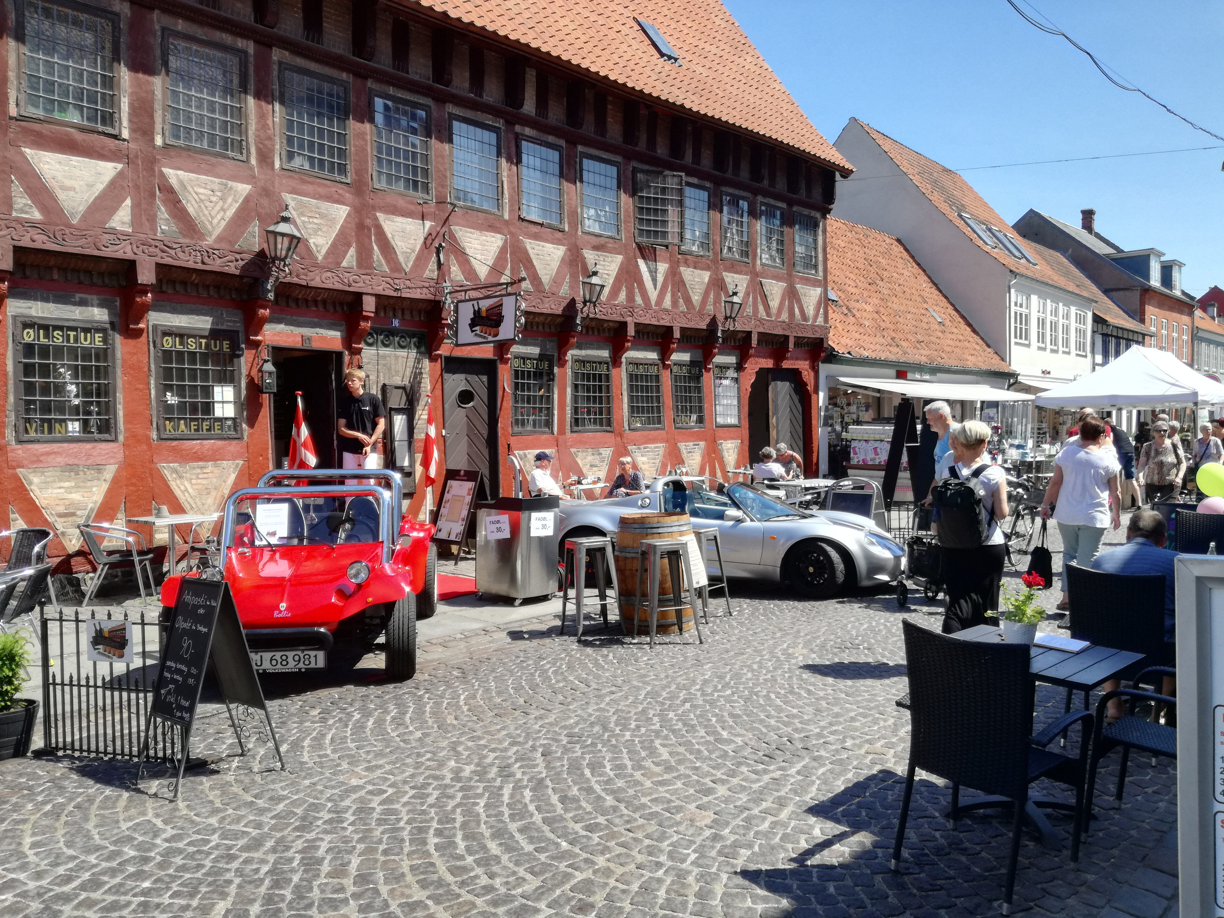 Market day with cars in the streets